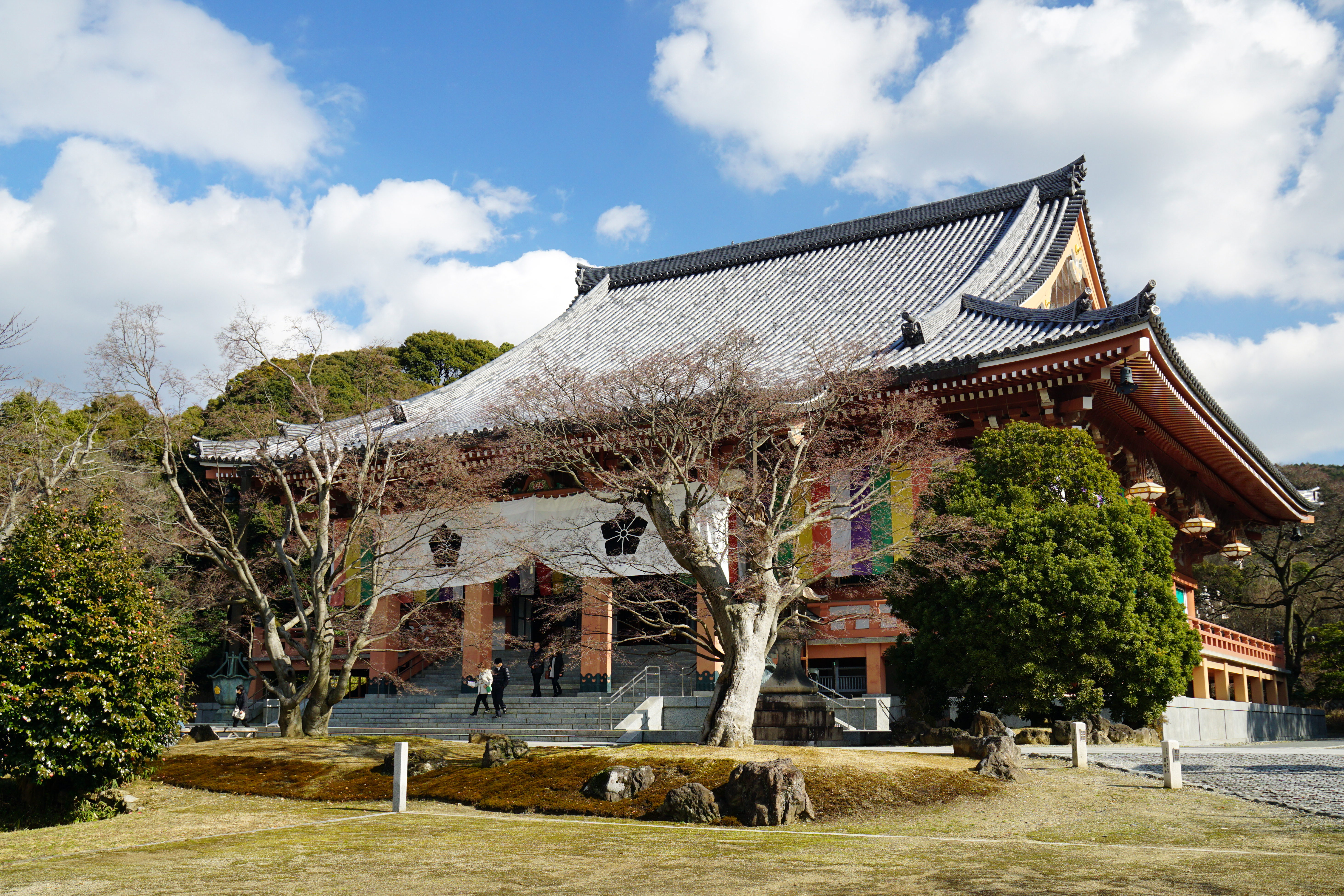 At Chishaku-in, Higashiyama-ku, Kyoto, Kyoto prefecture, Japan.